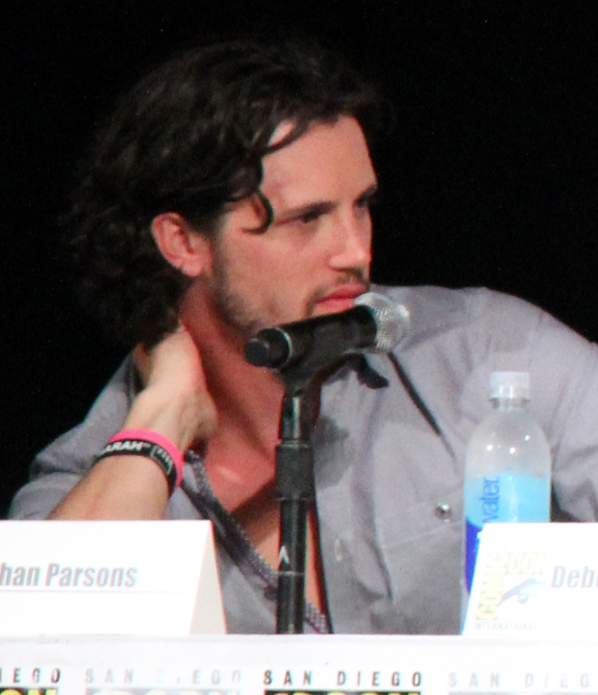 Nathan Parsons at the True Blood panel at the 2014 Comic-Con convention in San Diego, California.